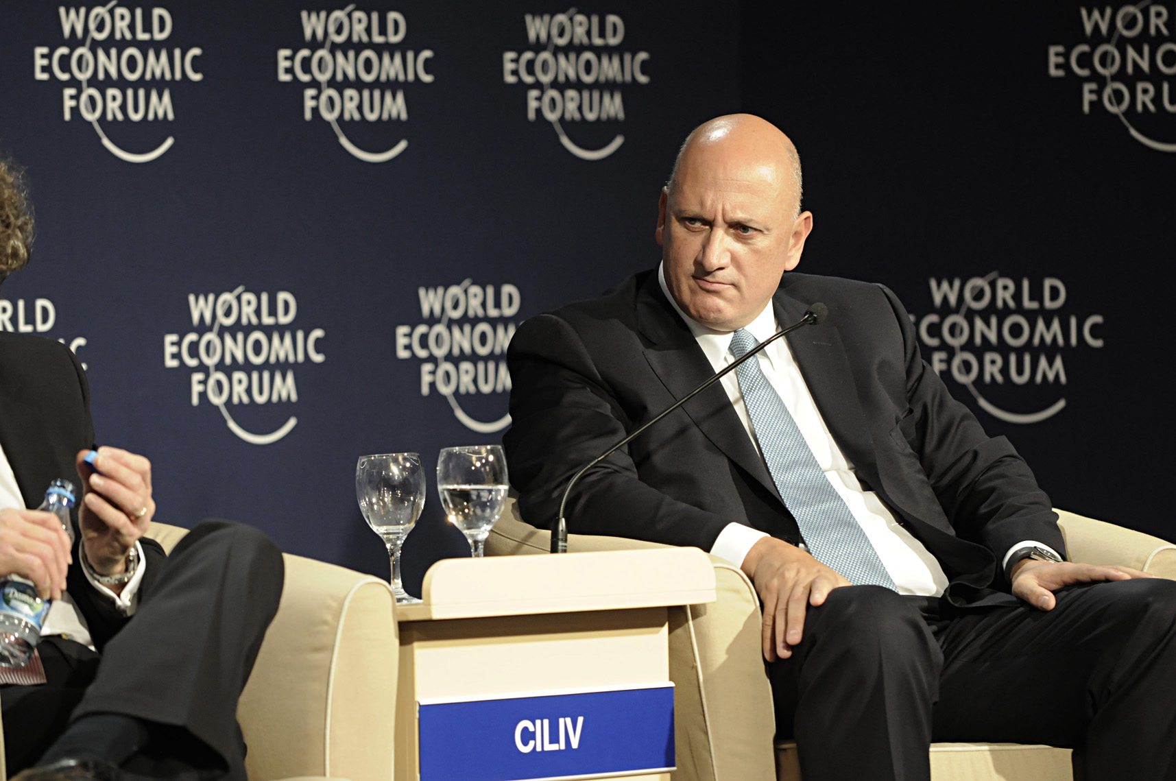 ISTANBUL/TURKEY, 31OCT08 - Sureyya Ciliv, Chief Executive Officer, Turkcell Iletisim Hizmetleri, Turkey at the World Economic Forum on Europe and Central Asia in Istanbul, 30 October - 1 November 2008. Copyright World Economic Forum ( by Serkan Eldeleklioglu-Bora Omerogullari-Ozan Atasoy